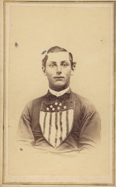 Baseball card of Steve King, a player for the Unions of Lansingburgh.